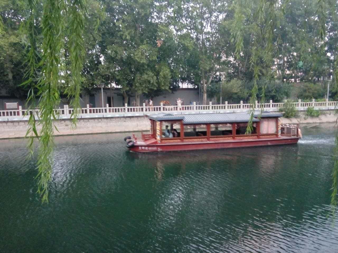 A boat on the Fuyang River.